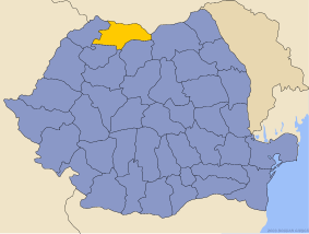 Location of Maramureș County in Romania.